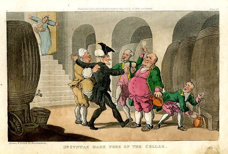 Dr Syntax was a comic character drawn by Thomas Rowlandson but the story was by William Combe